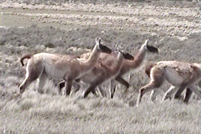 Guanacos (Lama guanicoe guanicoe) in the main island of Tierra del Fuego, Tierra del Fuego Province, in the southern Chilean region of Magallanes and Antártica Chilena.